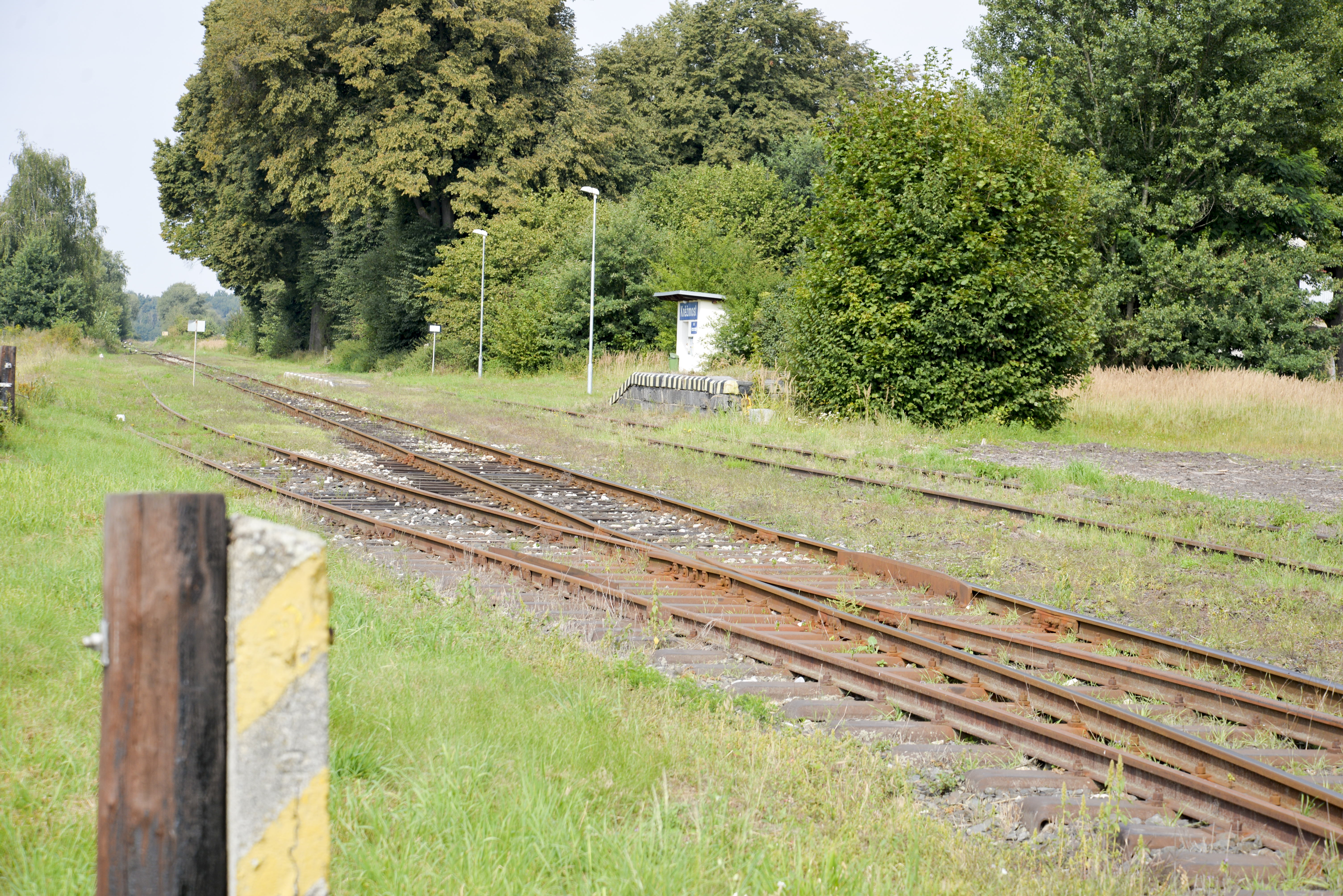 Kněžmost train stop